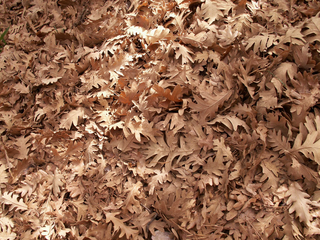 Rebollar_del_atardecer_"